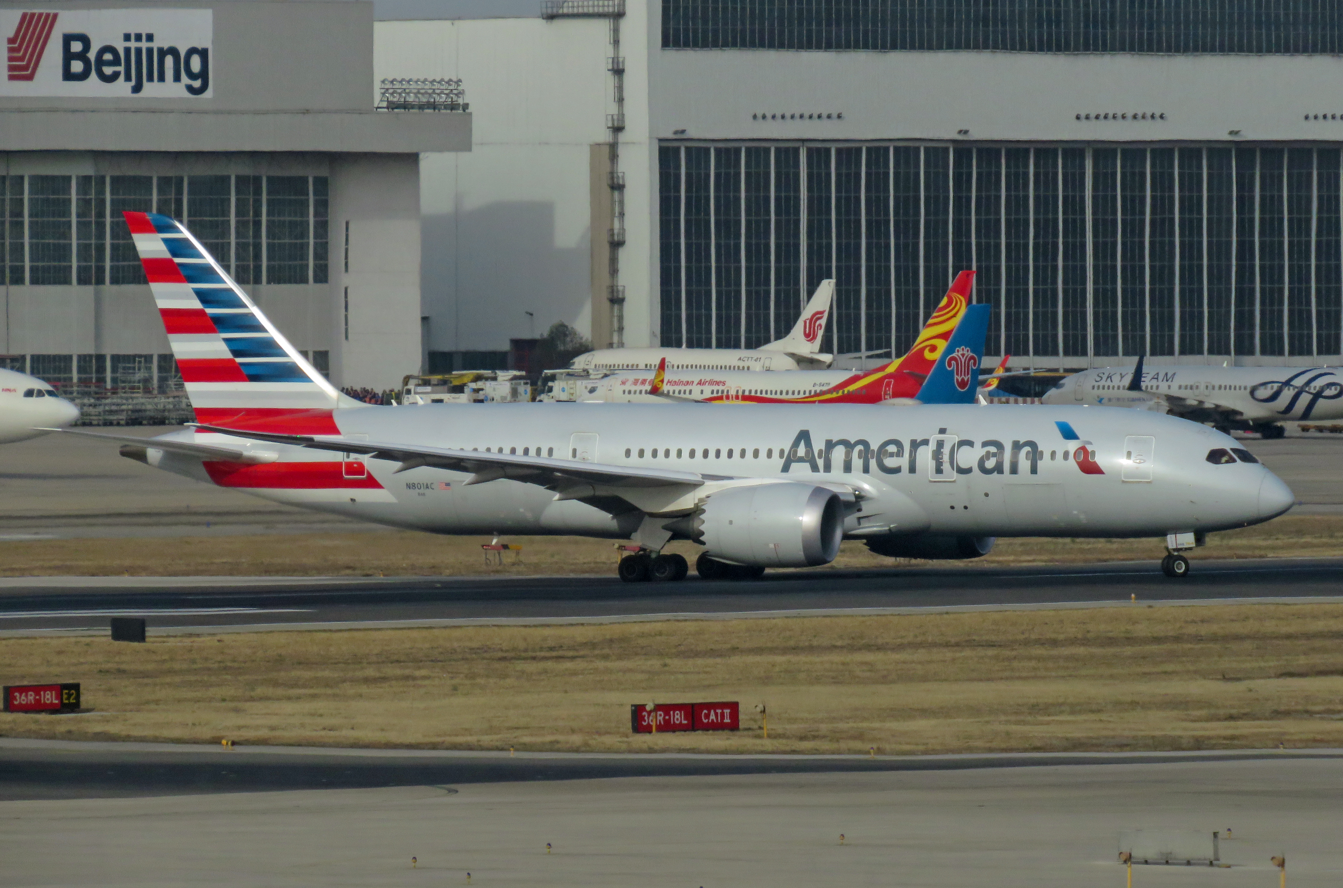 American 186 to Chicago. Note the ACTT-01, a 737-300 previously operated by Air China. ACTT stands for "Air China Training Tool" or what? After all, something for training at AMECO.